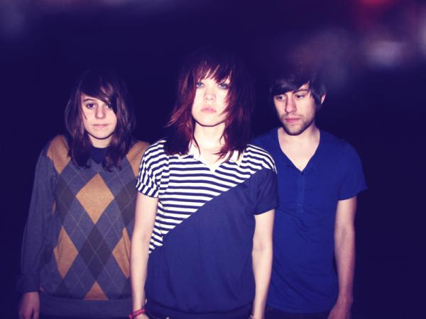 Now, Now